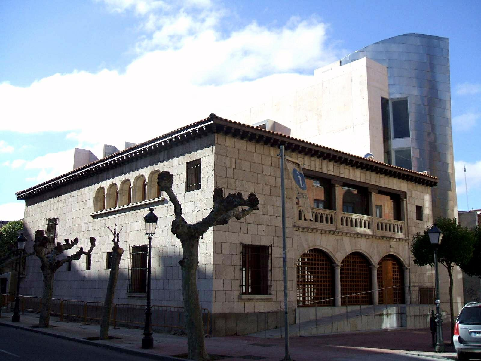 Christopher Columbus Museum, Valladolid (Spain).